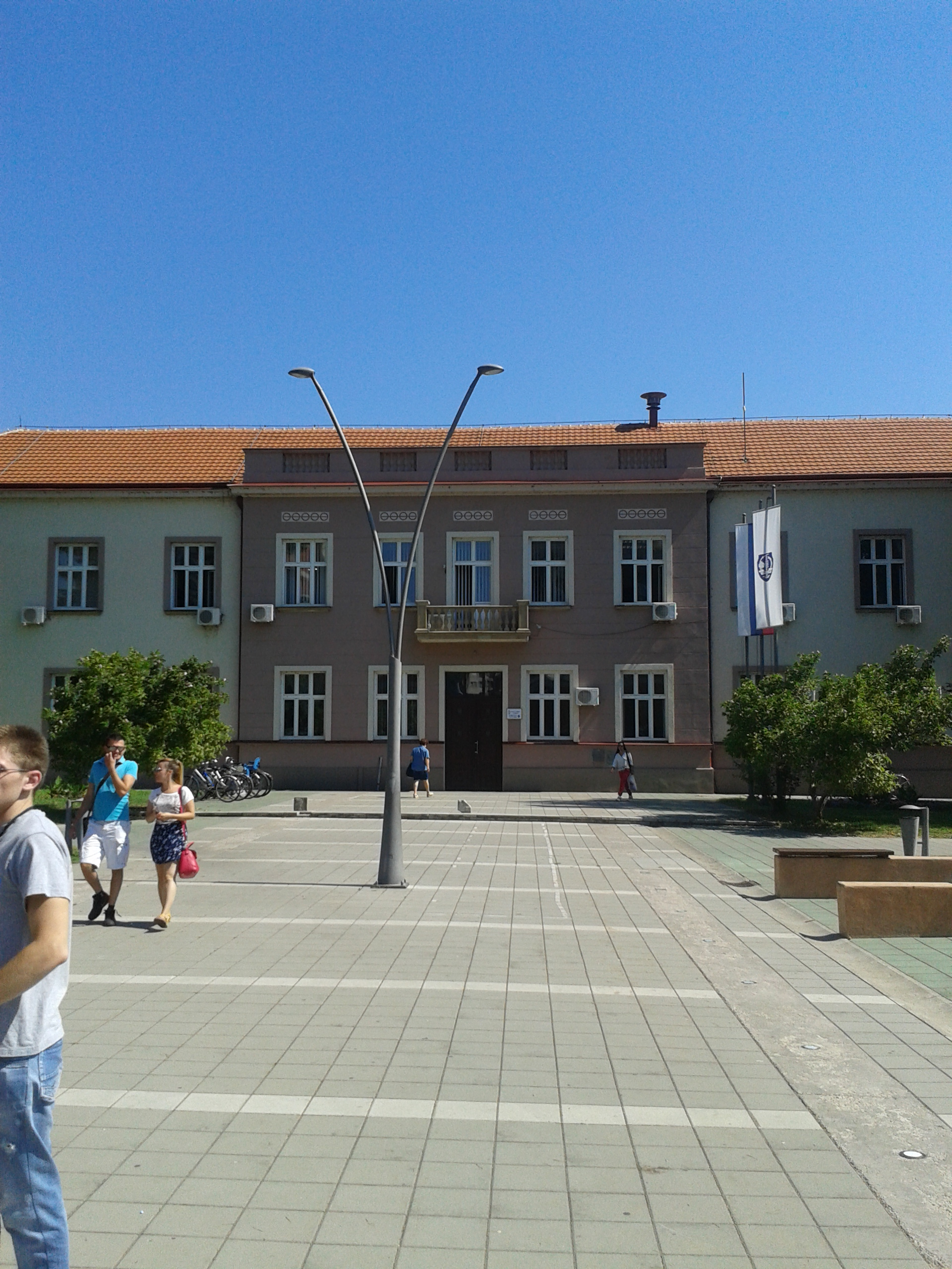 Building of Opština Trstenik